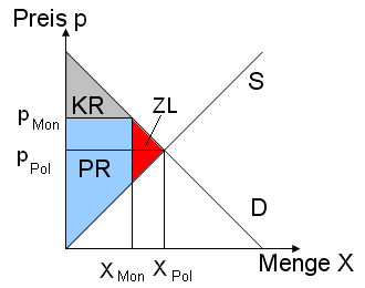 welfare effects of a monopoly